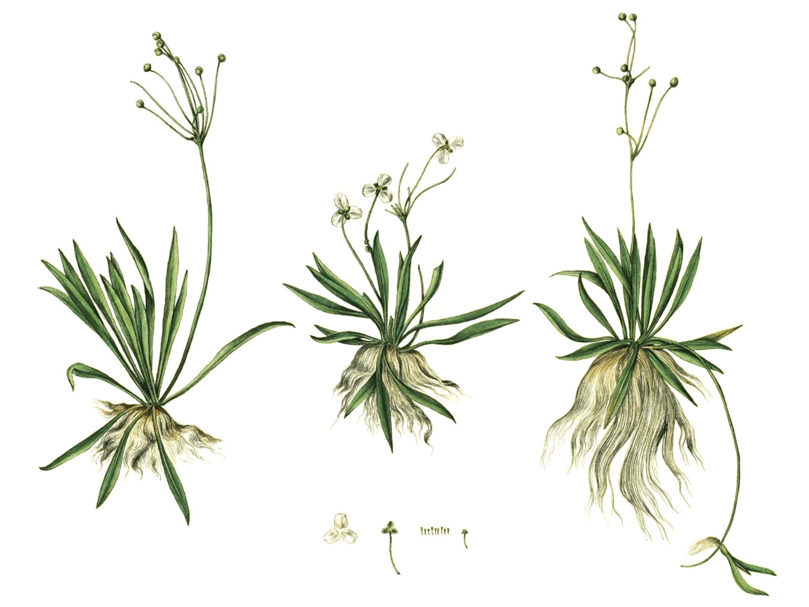 Helanthium tenellum (Mart. ex Schult.f.) Britton - North American dwarf burhead, Mud-babies, or Pygmy chain sword